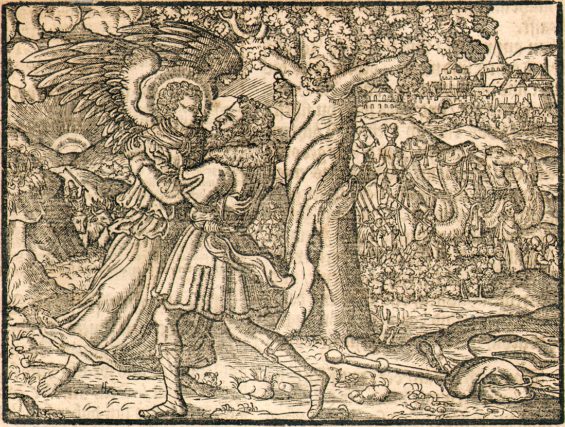 Gutenberg Bible, 1558. Woodcut. 11,5 X 15,5 cm